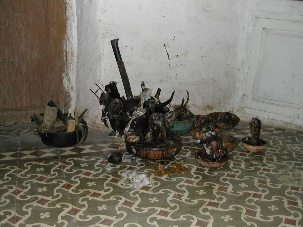 In Trinidad, Cuba, we visited the home of a santeria priest. The previous day, they had had a sacrifice. These are the remnants including a goat head, chicken feathers, and dried blood. Not included is the foul odor. This sacrifice is associated with a Babalawo.